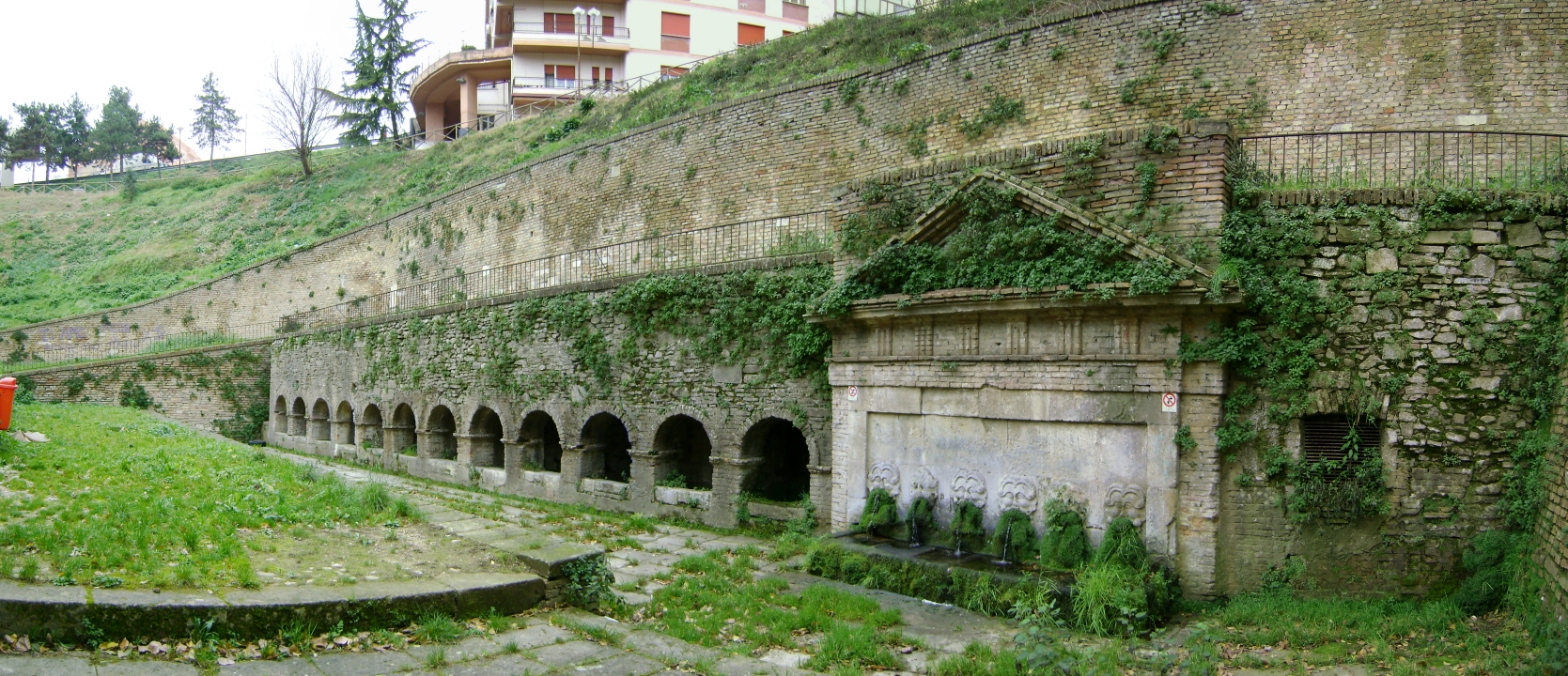 The Borgo's fountain, Lanciano, province of Chieti, Abruzzo